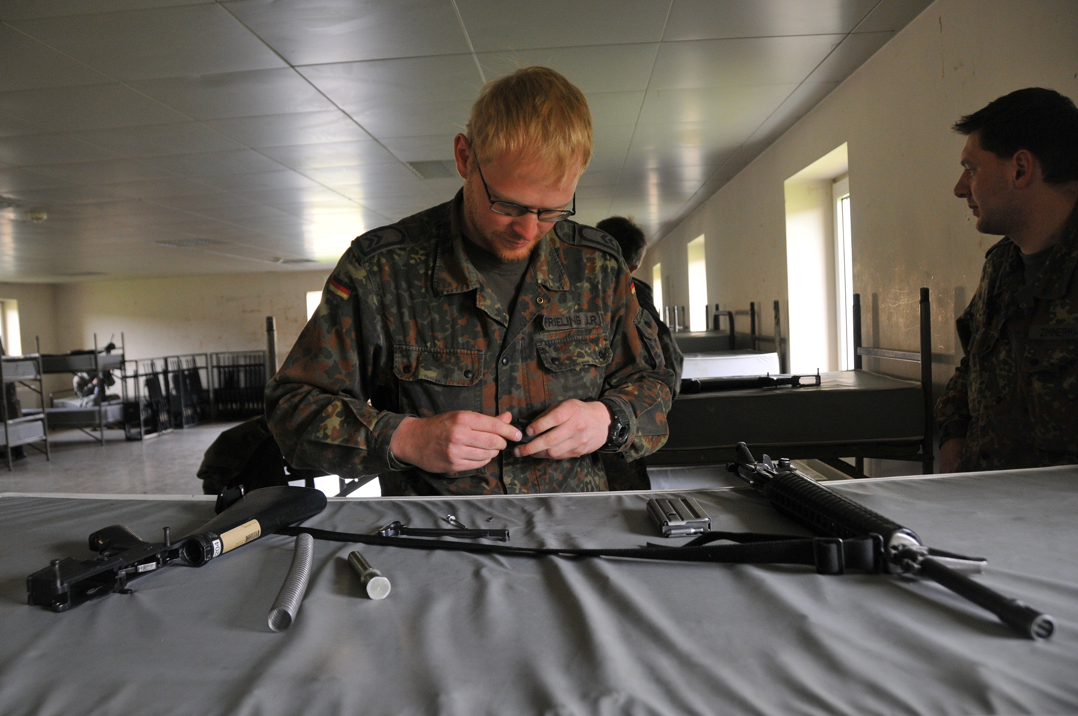 German Staff Sgt. Jann Frieling practices disassembling and reassembling the U.S. M16A2 rifle during an Operational Mentor Liaison Team training exercise at U.S. Army Europe's Joint Multinational Readiness Center in Hohenfels, Germany, May 11. OMLT and Police OMLT training are designed to prepare teams for deployment to Afghanistan to train, advise and enable Afghan forces in areas such as counterinsurgency, combat advisory and force enabling support operations. (Photo by Pfc. Jordan Fuller)